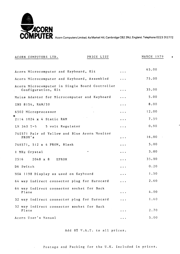 Acorn Computers price list, March 1979